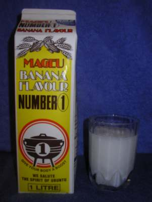 A picture of a representative carton of mageu, as well as some poured into a glass Note: the carton logo and design is copyright Foodcorp (Pty) Ltd., South Africa.